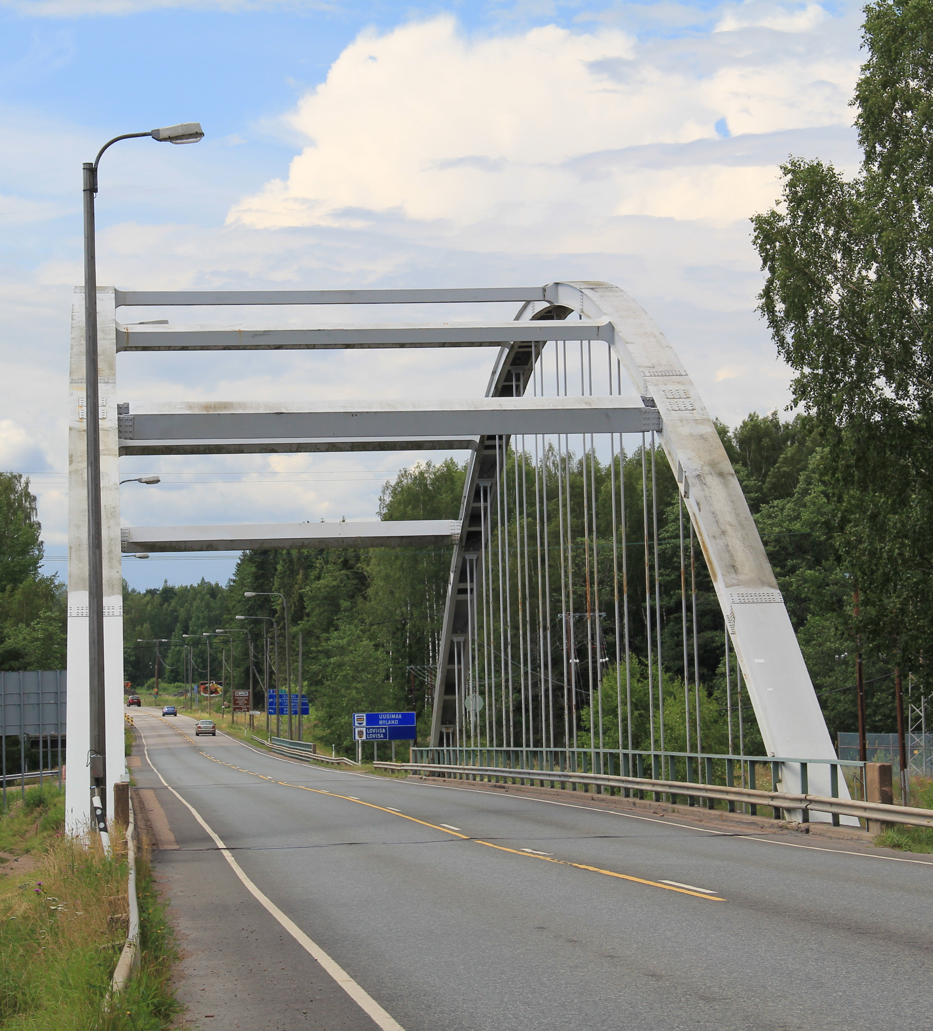 Ahvenkoski hydropower station tailrace canal bridge, European route 18, Pyhtää, Finland. - Tied-arch bridge, completed in 1965.